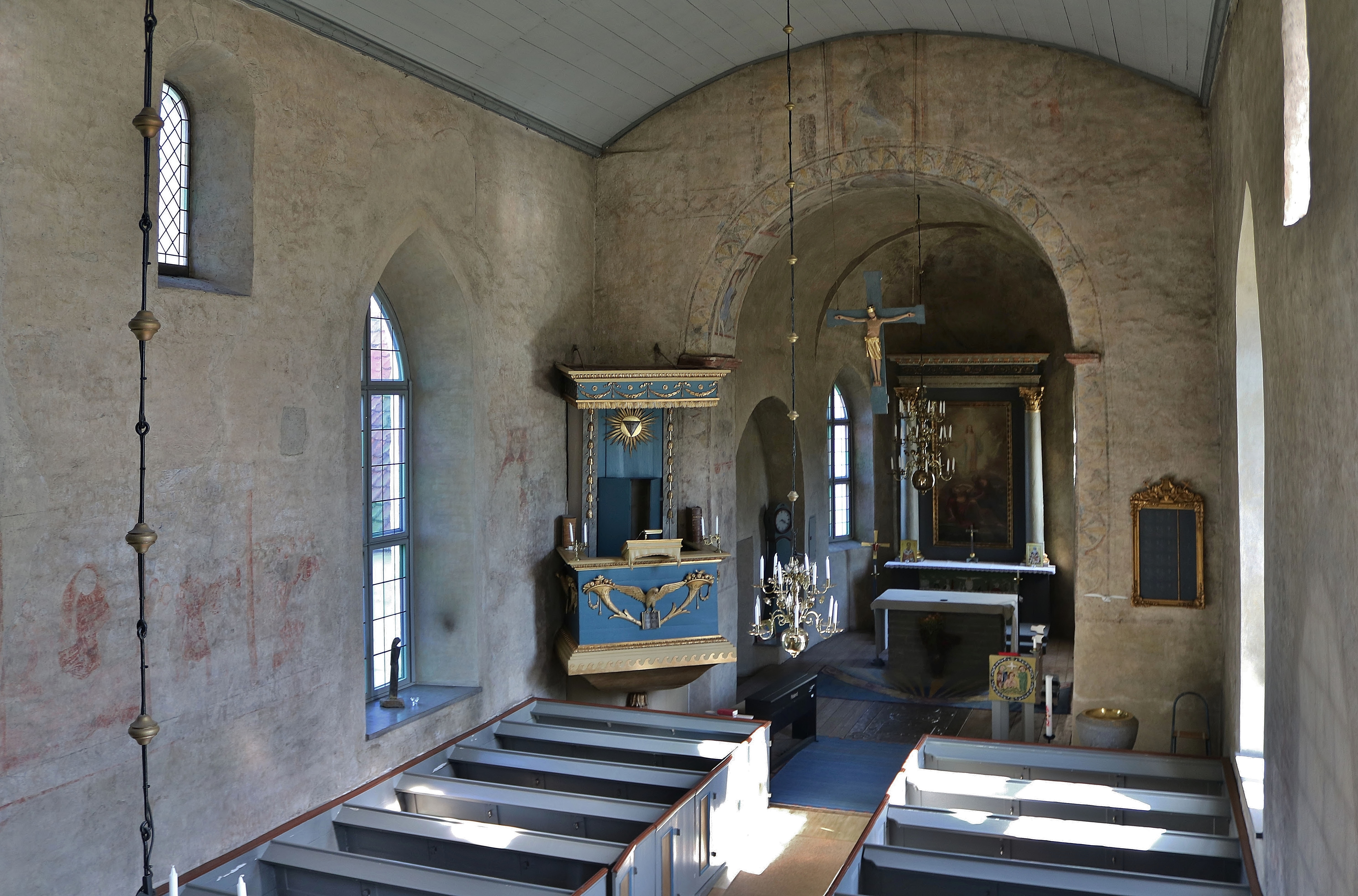 Resmo Church.The interior of the church looking east.